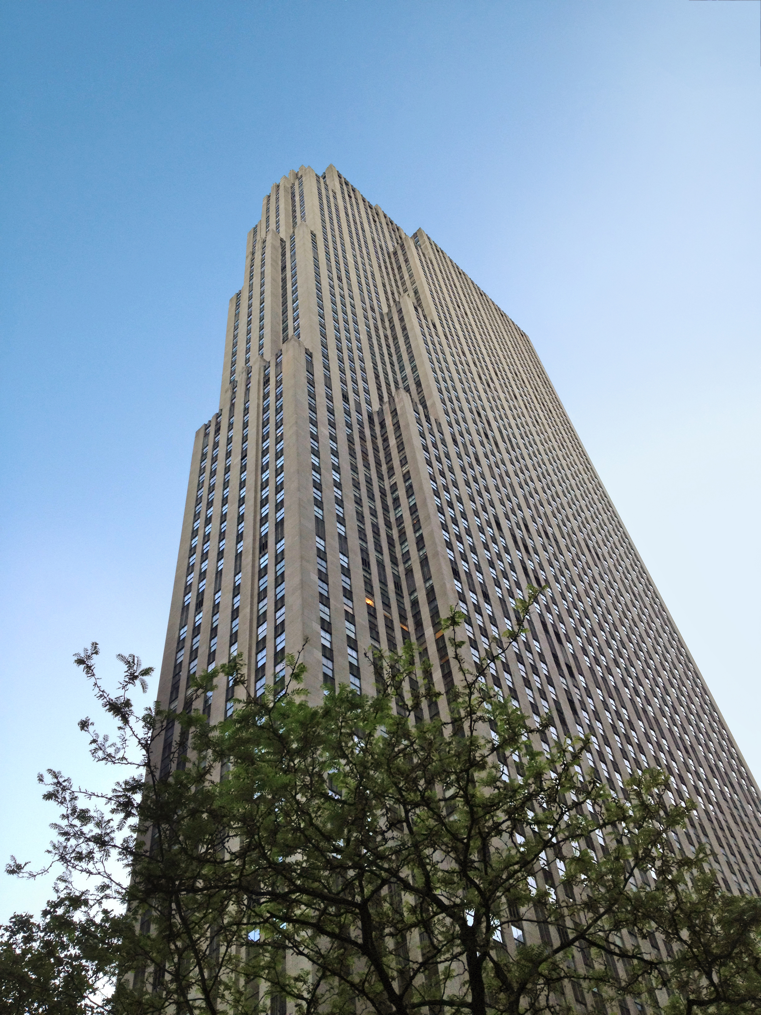 The GE Building (General Electric) at 30 Rockefeller Plaza, Manhattan, NYC. Spring 2012.